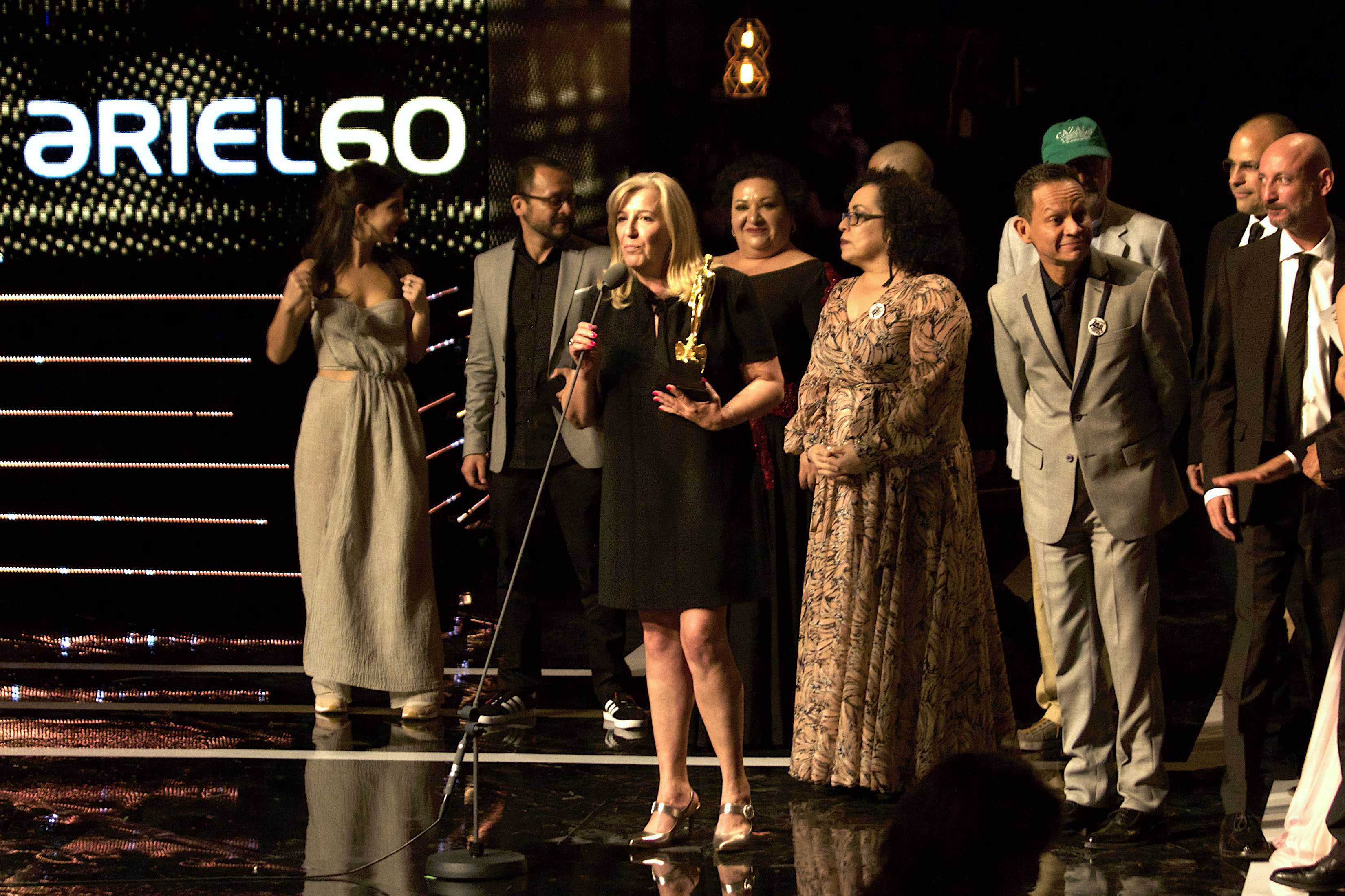 Sueño en otro idioma (Contreras, 2017) recibe el Ariel a Mejor Película.